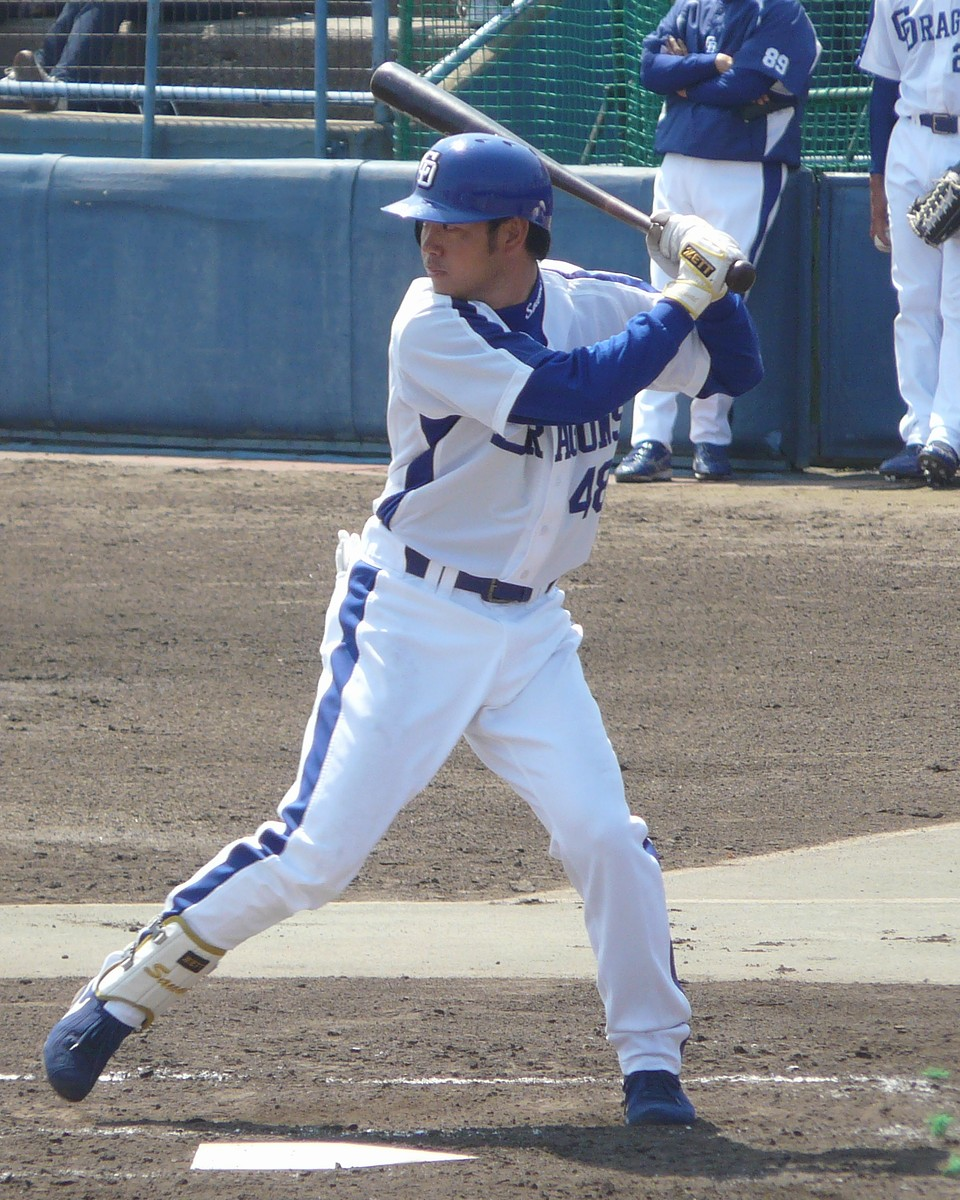 Chunichi Dragons/Michihisa Sawai